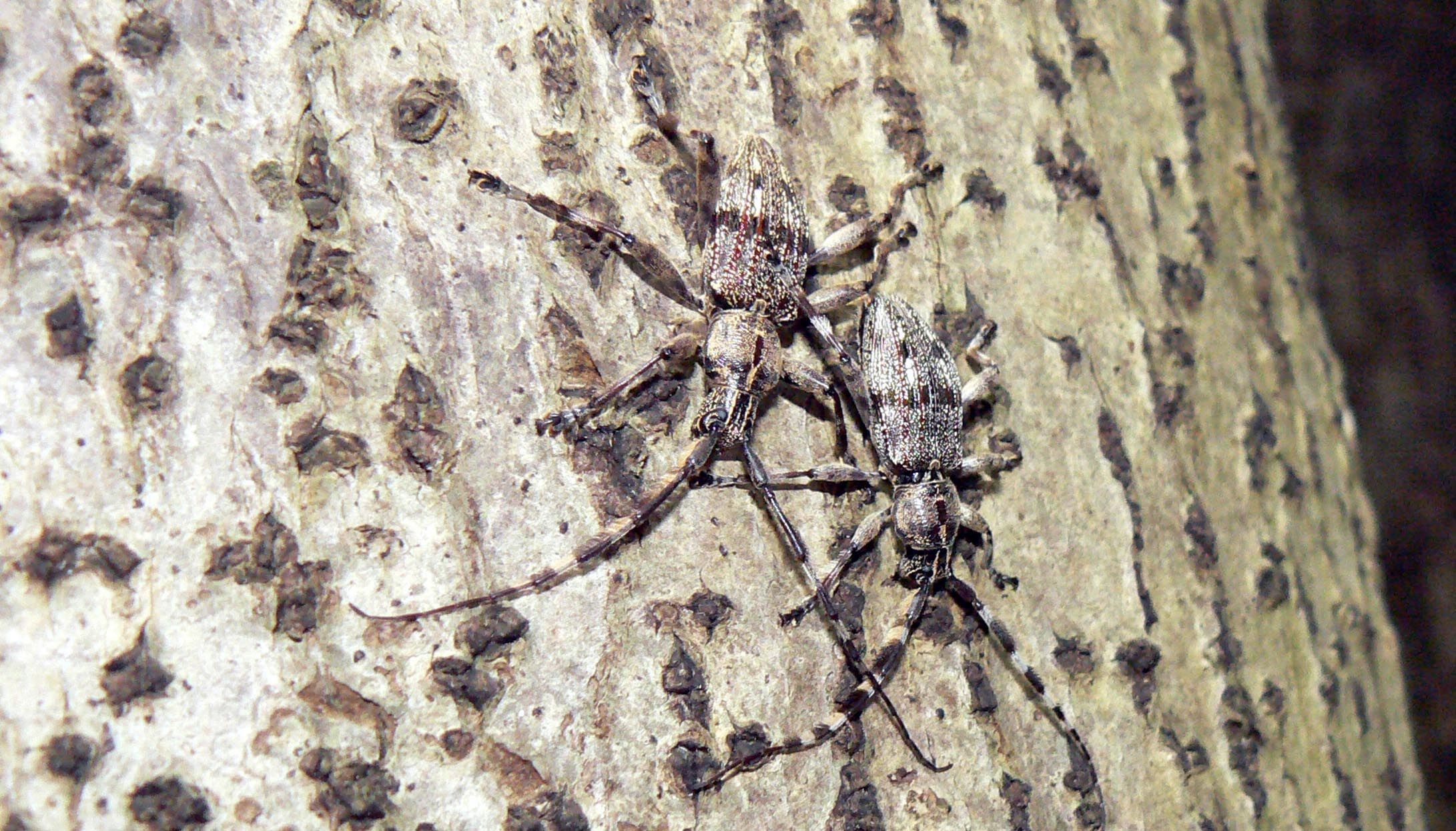 A pair of Hextatricha pulverulenta beetles on a karaka tree, Matuku Reserve, West Auckland, New Zealand